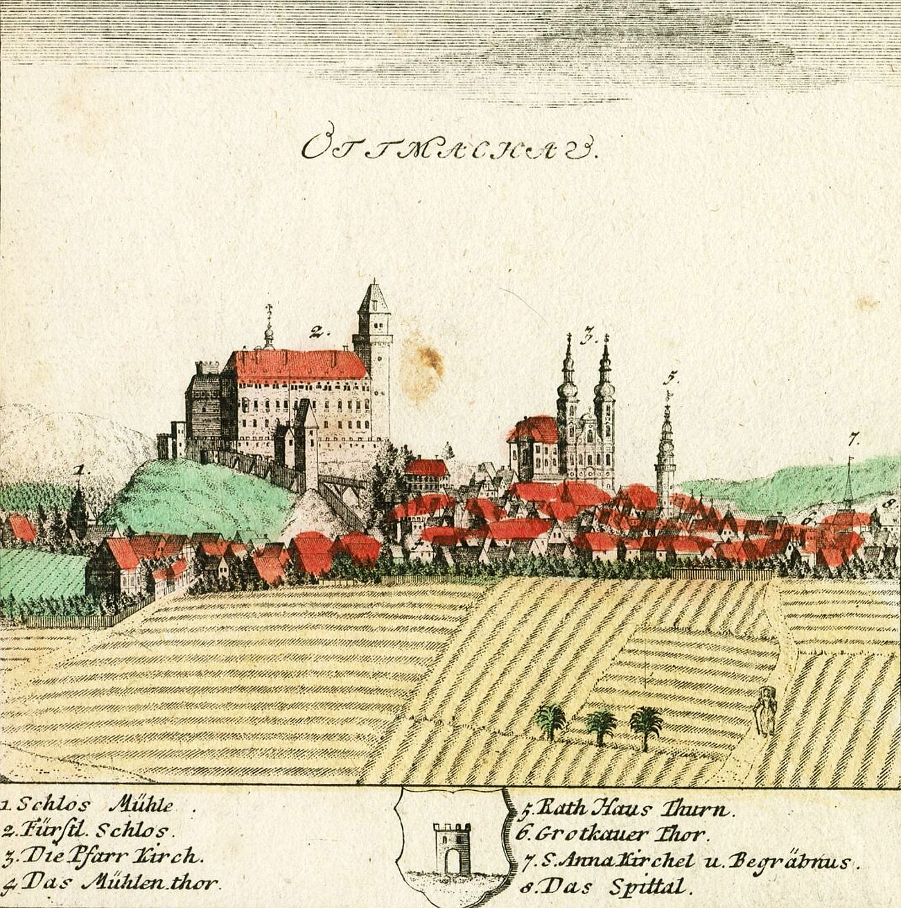 Otmuchów is a town in Nysa County, Opole Voivodeship, Poland.